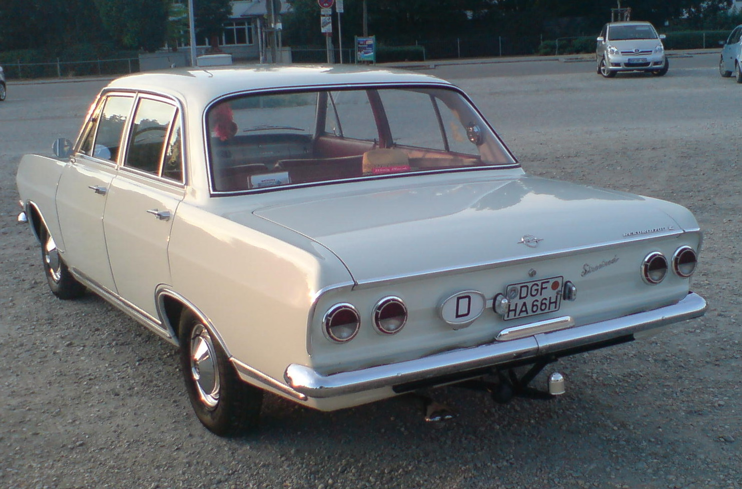 Opel Rekord B 1700 L Owner: Hönig